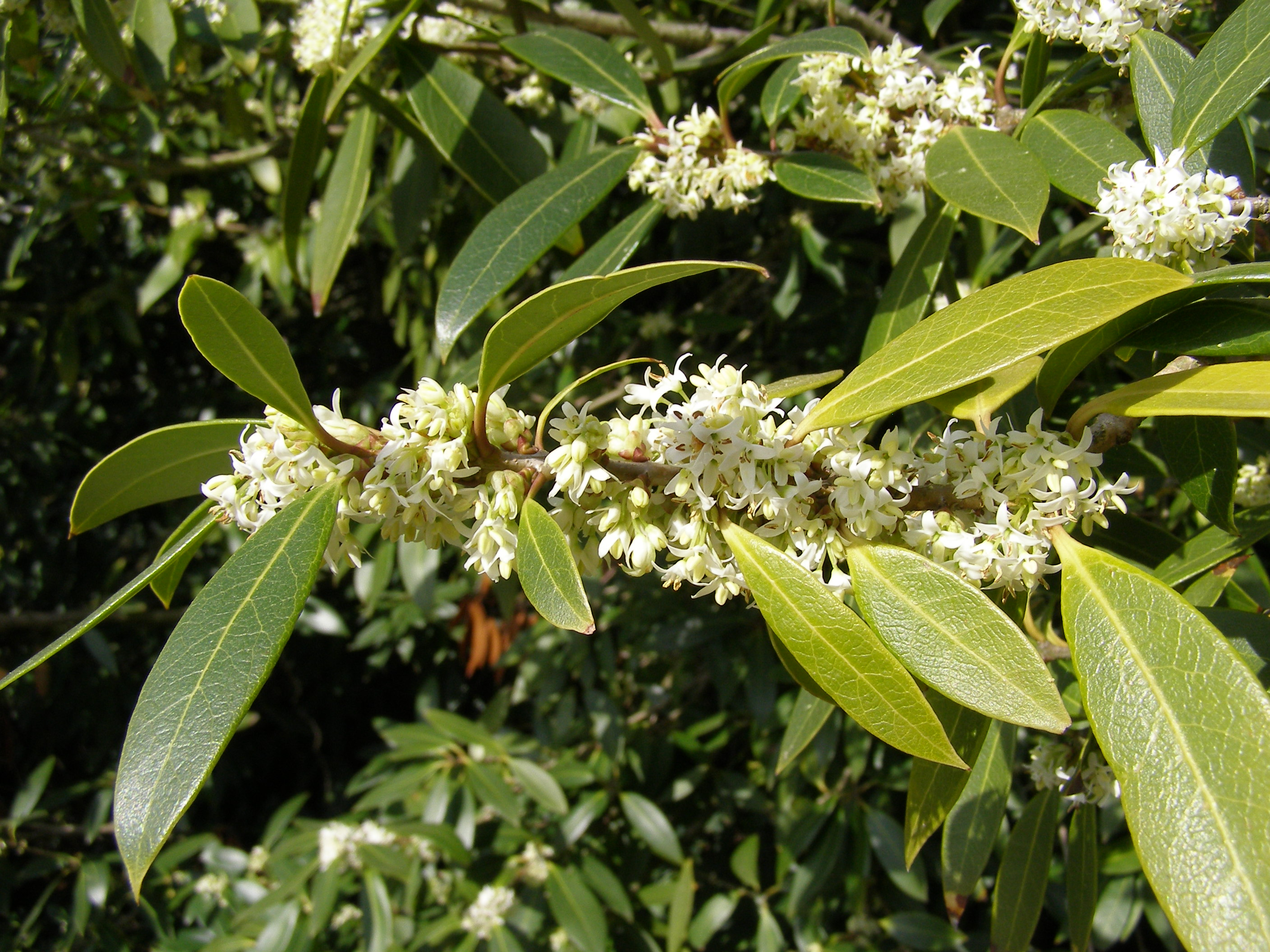 Taken by user IMC at RBG Kew.